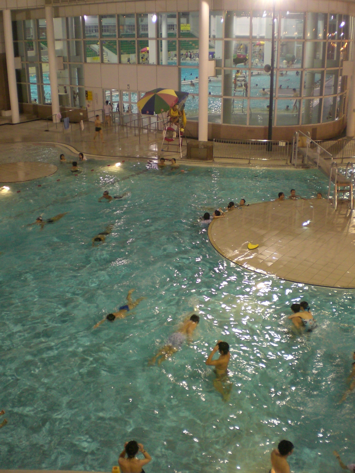 位於zh:香港zh:九龍公園的室內游泳池. Author= RoxRox